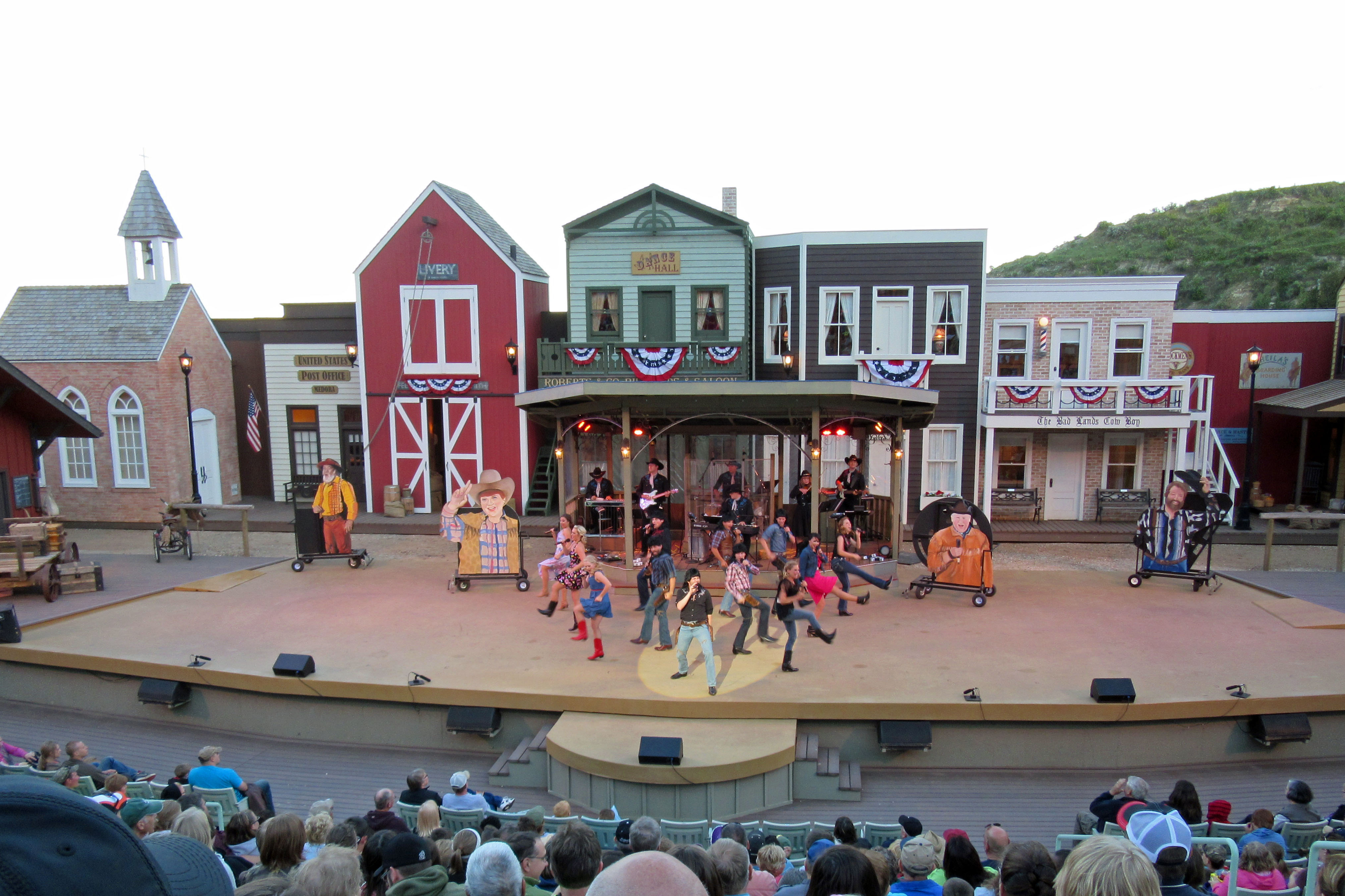 The Medora Musical is held every summer in the 2,900-seat Burning Hills Amphitheatre located in Medora, North Dakota.